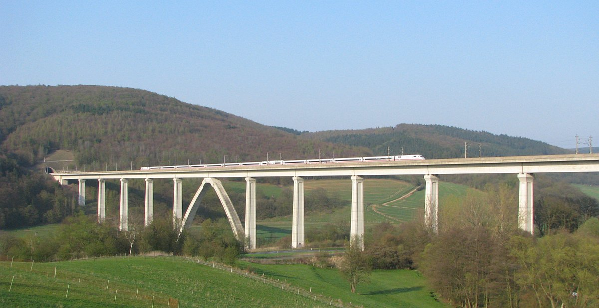 An ICE 1 high-speed train on the Pfieffetal bridge, near Melsungen, Hesse, Germany.